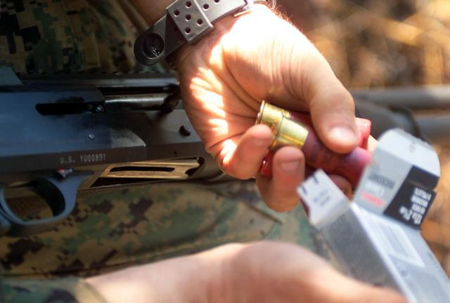 ID: DMSD0505340 031107M6515T102 Released to Public Service Depicted: Marines US Marine Corps (USMC) Marine attending the Small Arms Weapons Instructor Course loads 12-gauge shells into an M1014 Joint Service Combat Shotgun (JCSC), on the range at Marine Corps Base (MCB) Quantico, Virginia (VA). Location: MARINE CORPS BASE QUANTICO, VIRGINIA (VA) UNITED STATES OF AMERICA (USA) Date Shot: 07 NOV 2003 Camera Operator: LCPL CASEY N. THURSTON, USMC